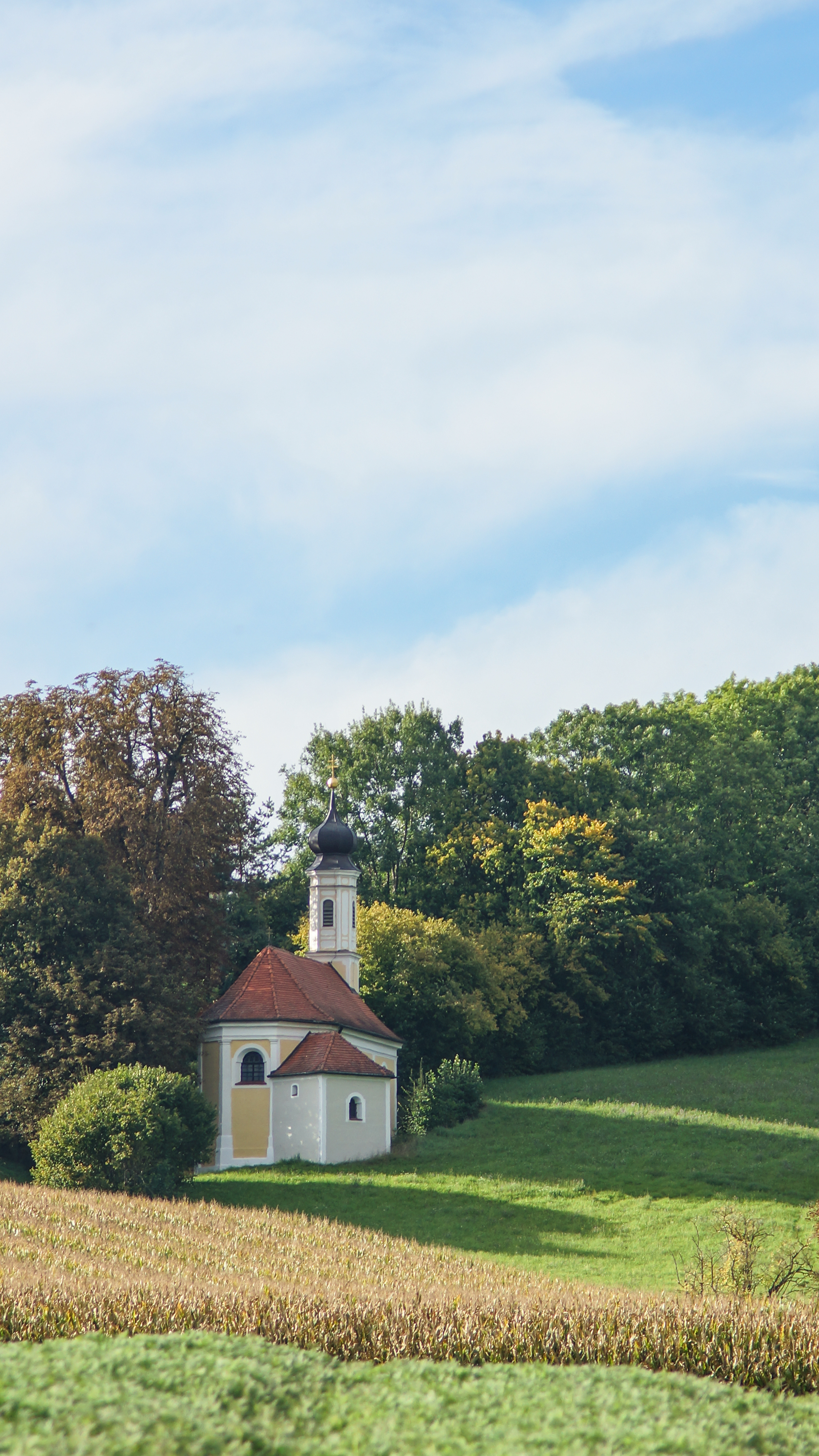 This is a photograph of an architectural monument.